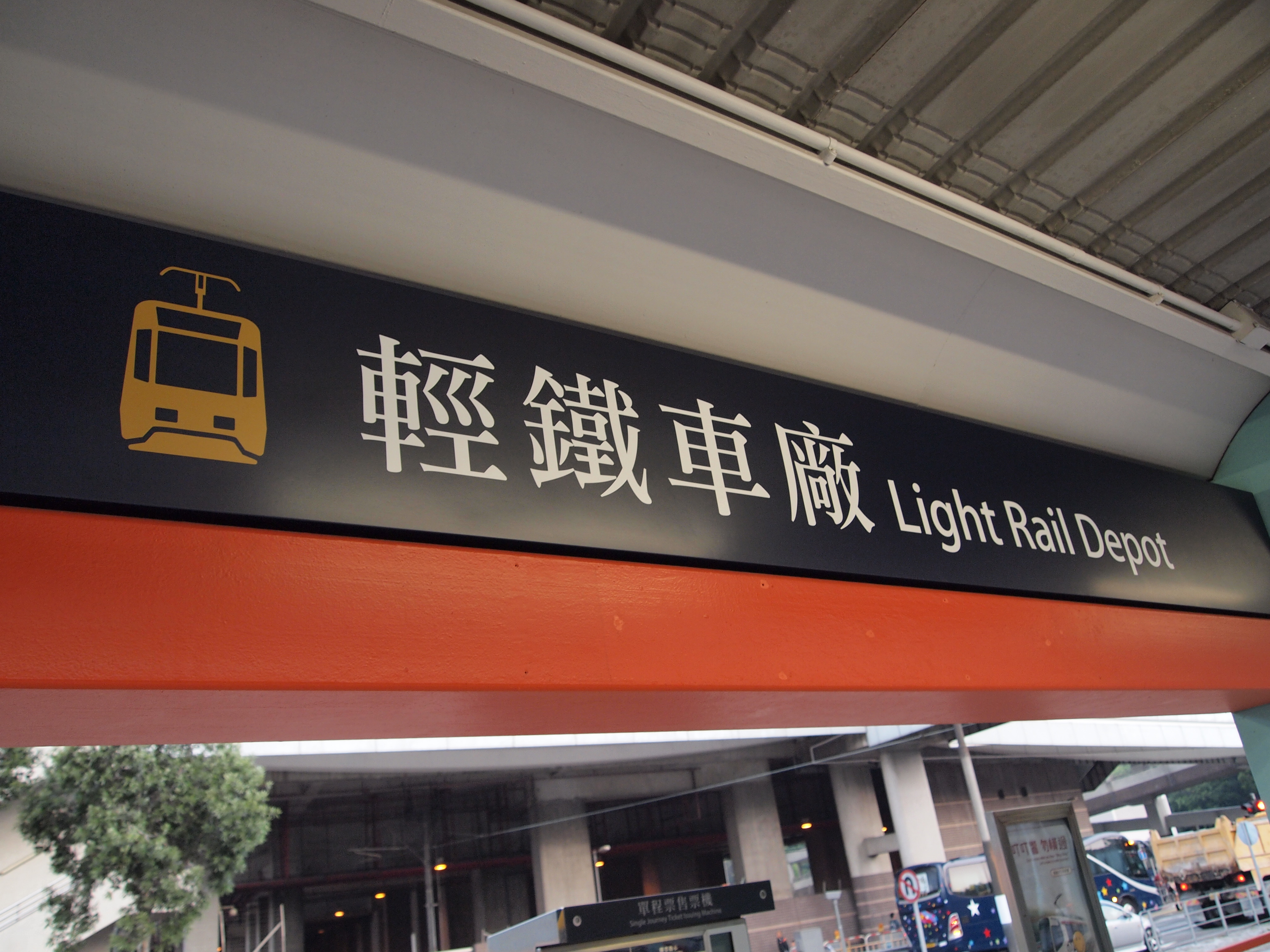 Name board of MTR Light Rail Depot LRT station